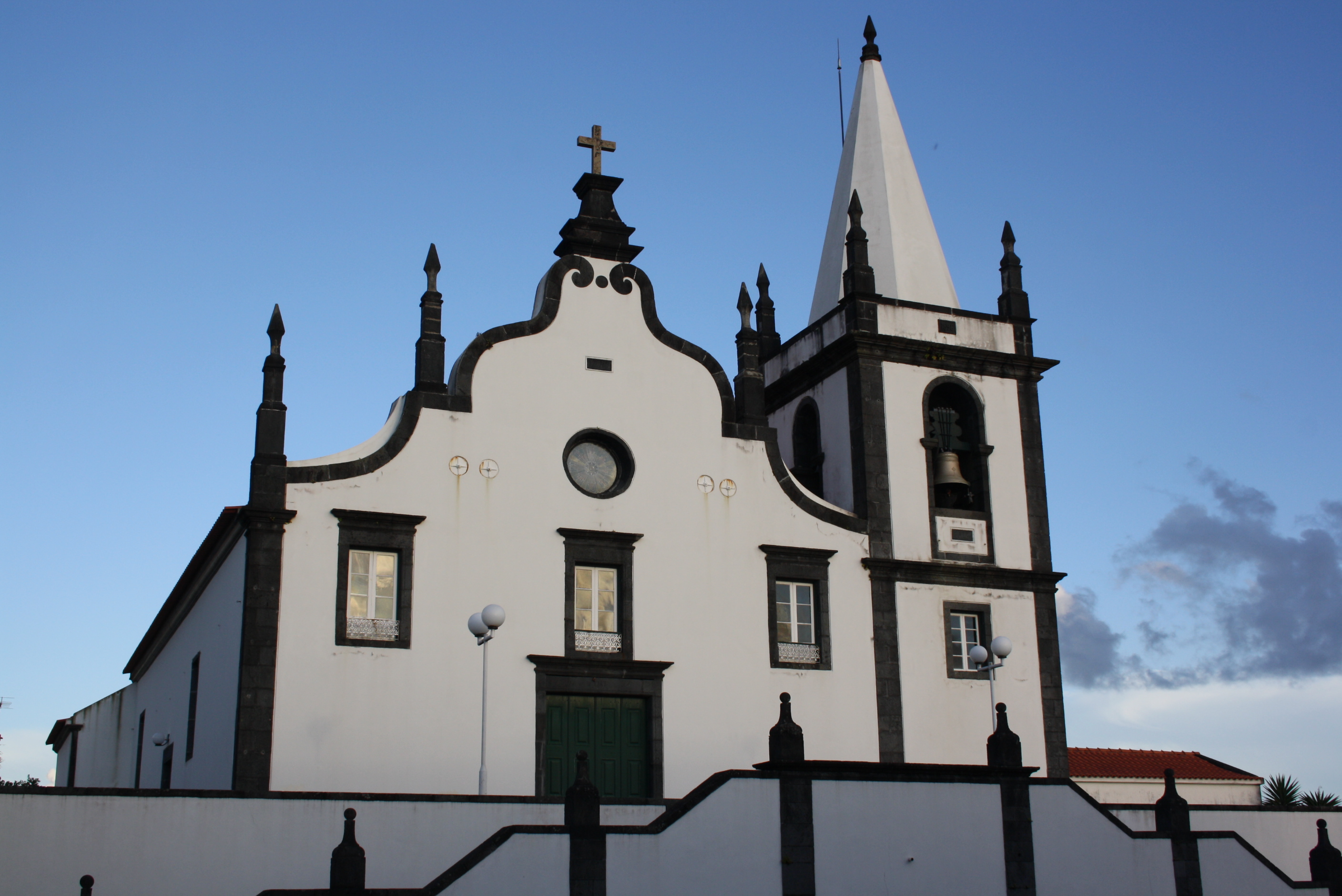 This file was uploaded for Wiki Loves Monuments in Portugal with the unique identifier 97029748.